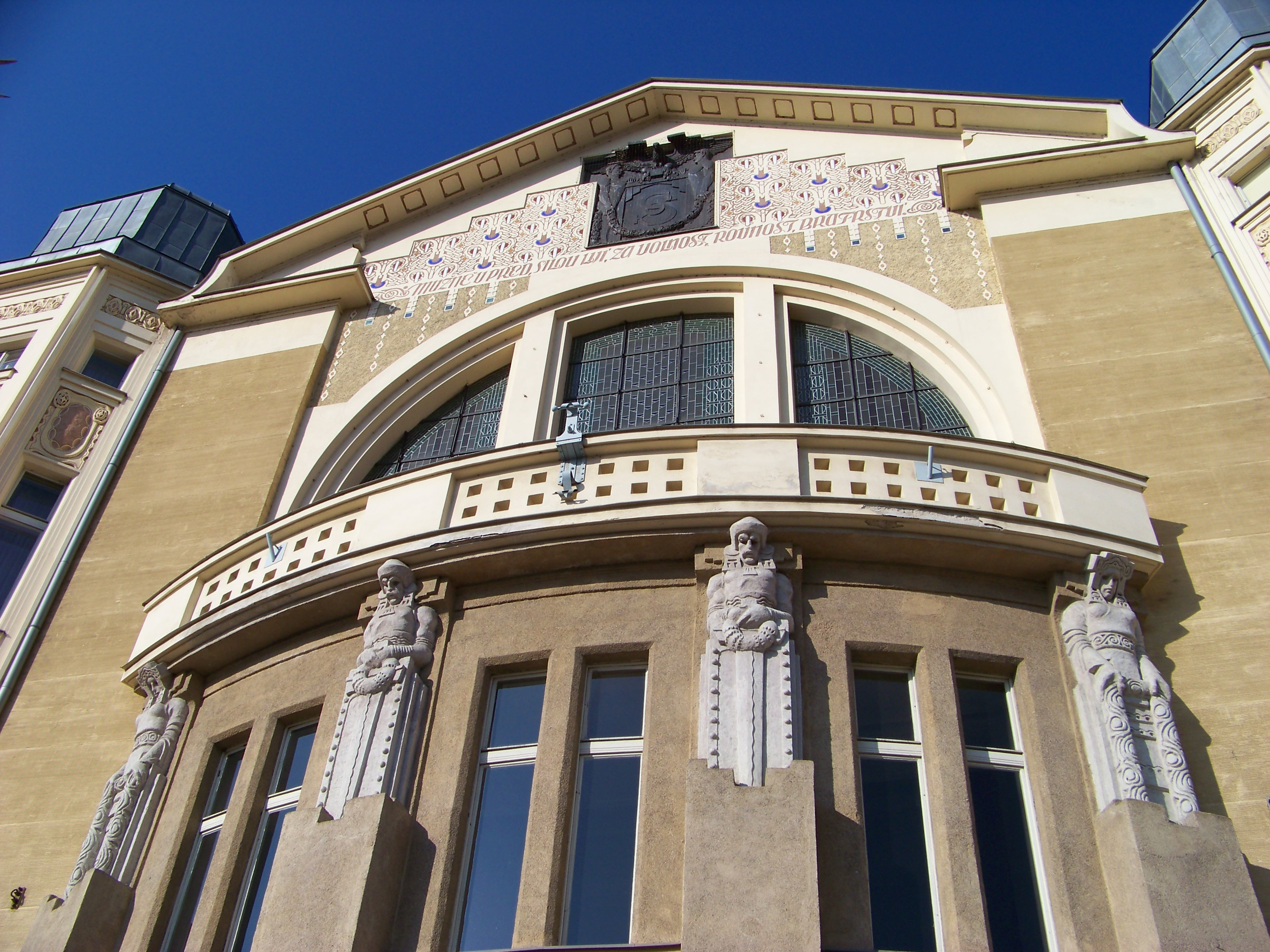 Prague-Libeň, the Czech Republic. Zenklova street, Sokol house. - Google Maps - Google Earth